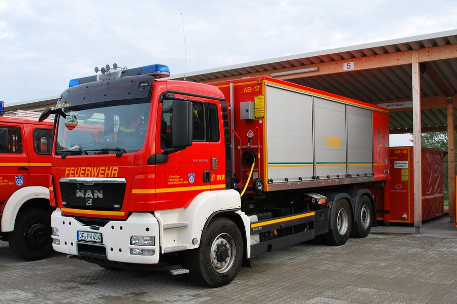 Changing loader vehicle 1 of the volunteer fire department Mühlheim. Here by default saddled with the AB environmental / setup.